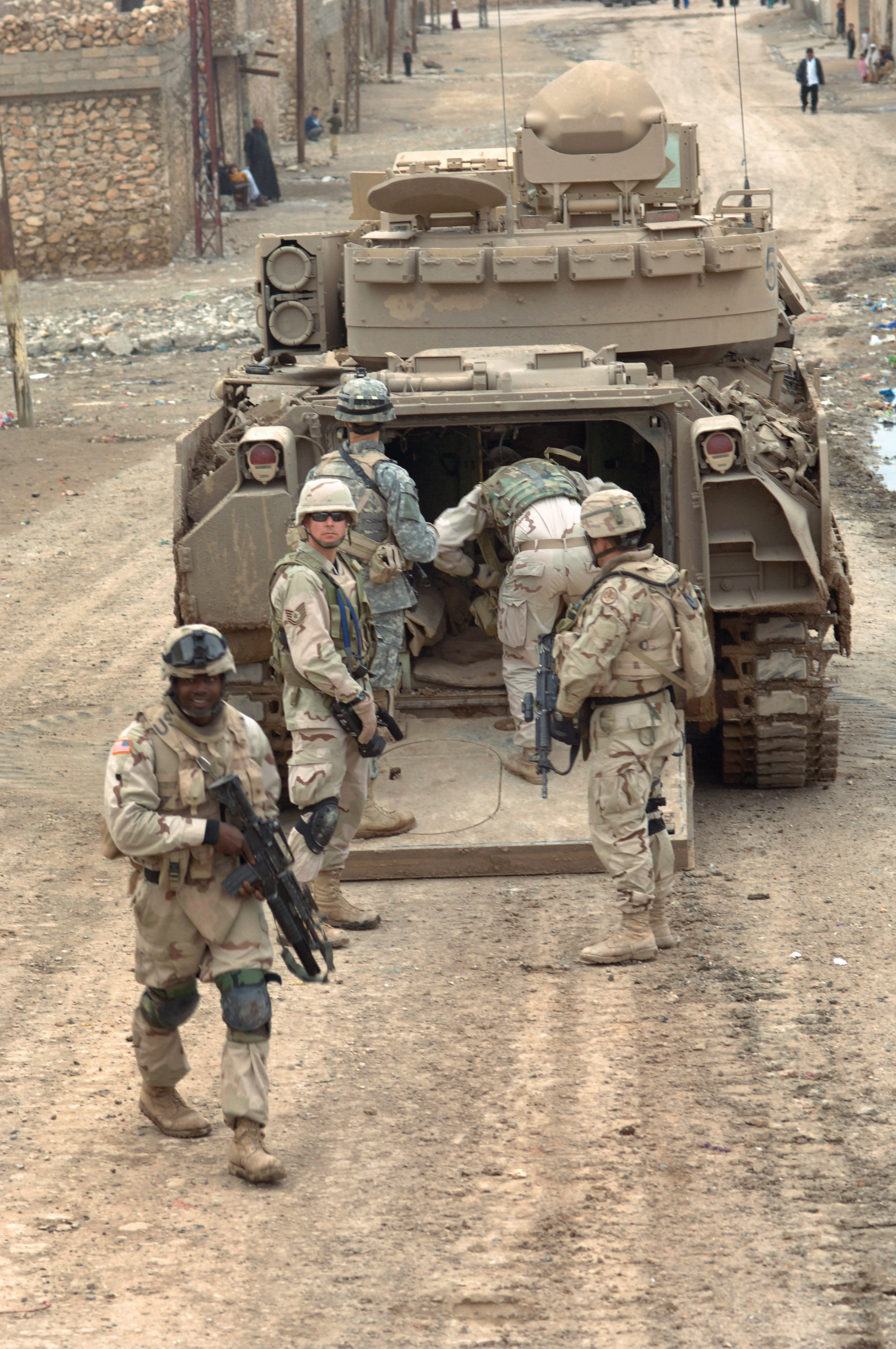 Source description: Soldiers from the Army's 3rd Armored Cavalry Regiment load into an M2 Bradley infantry fighting vehicle as they conduct a combat patrol in the streets of Tall Afar, Iraq, on Feb. 6, 2006. DoD photo by Staff Sgt. Aaron Allmon, U.S. Air Force. (Released)